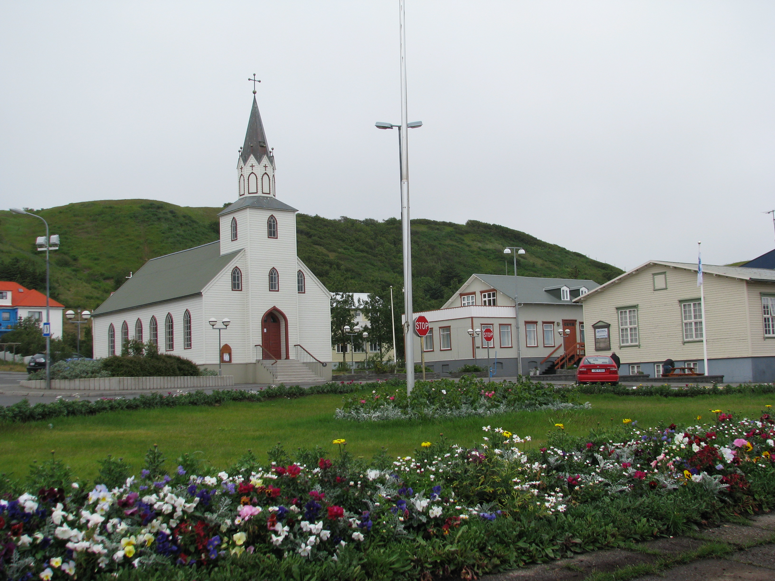 Church of Saudárkrókur, a town on Iceland.